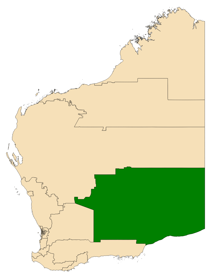 Location of the electoral district of Kalgoorlie in Western Australia as of the 2017 WA state election.